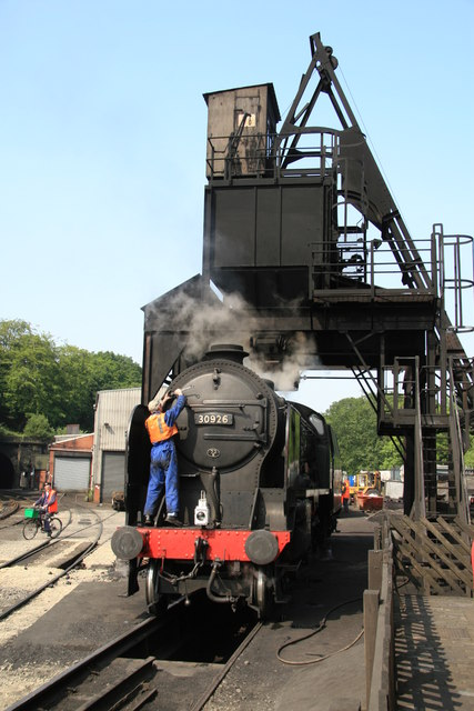 Repton on the coaling stage, Grosmont.